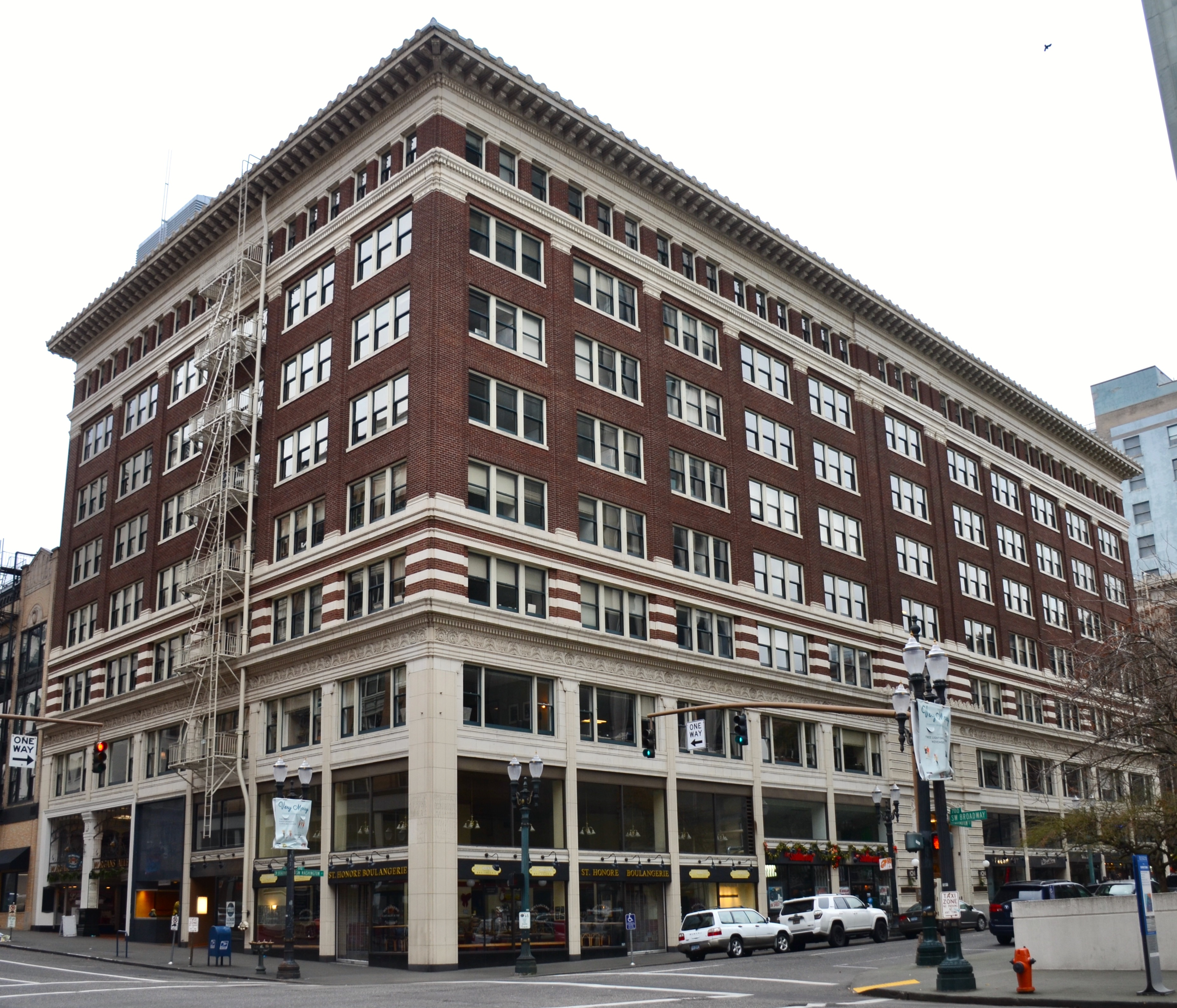 The Morgan Building (built in 1913), in downtown Portland, Oregon, is listed on the U.S. National Register of Historic Places. It is located on the south side of Washington Street, extending from Broadway to Park Avenue. This photo is from across the intersection of Broadway & Washington, looking southwest.